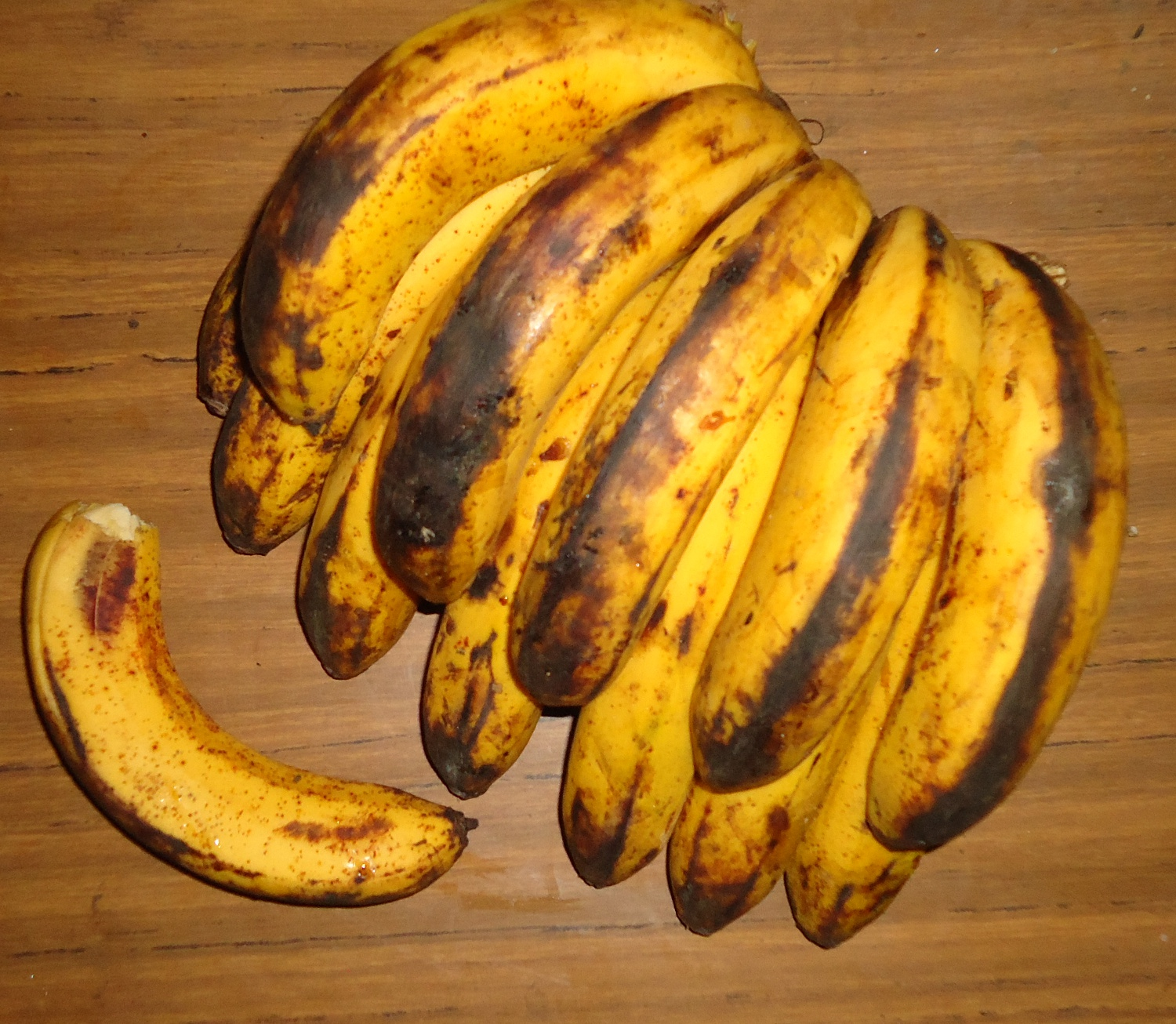 The skin of overripe Lacatan Bananas typically turn black.